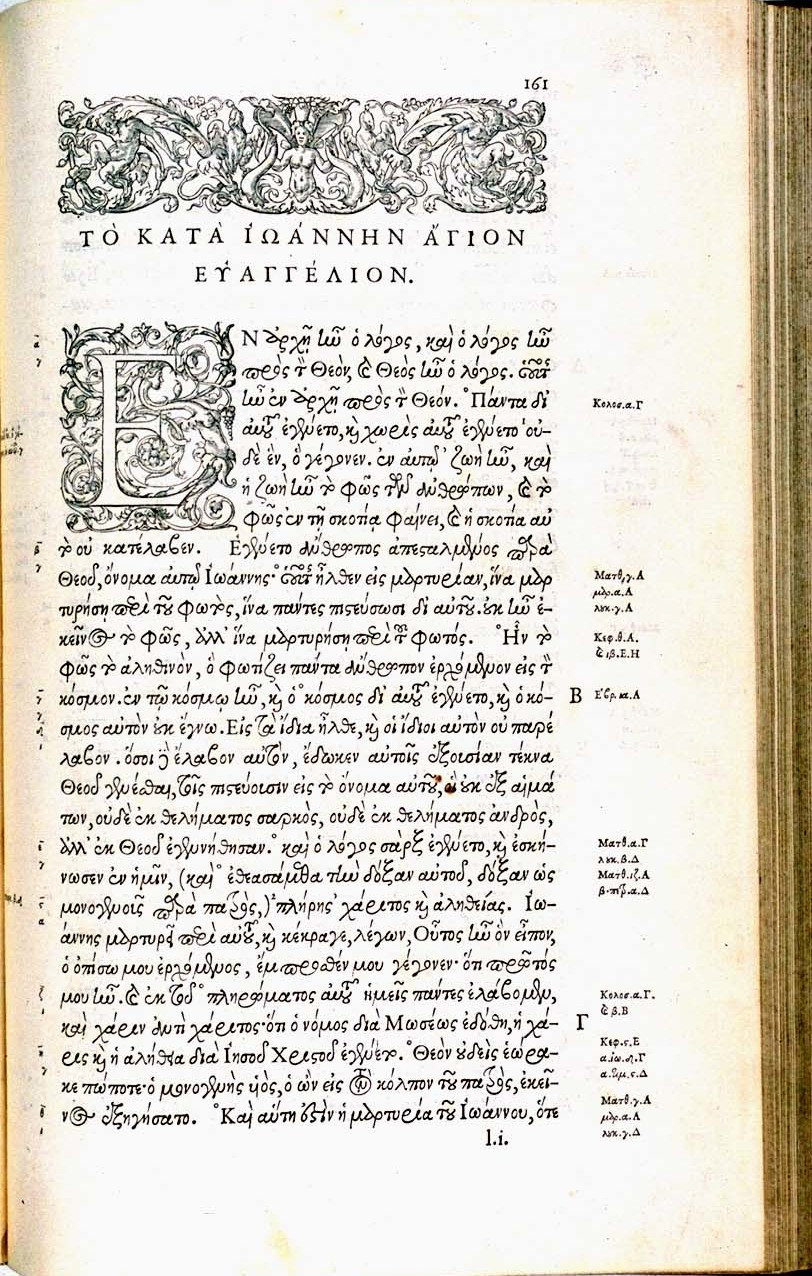 Page from Robert Estienne's edition of the New Testament, Paris 1550, printed in Claude Garamond's typeface Grecs du roi. Shown: Beginning of the Gospel of John. Page digitalized by Bridwell Library, Perkins School of Theology, Southern Methodist University. [1]